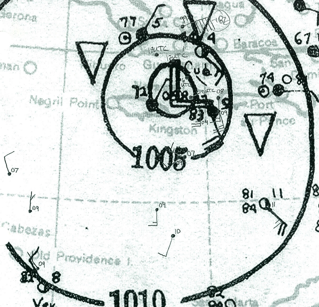 Surface weather map of Hurricane 6 of the 1935 Atlantic hurricane season on October 22, 1935. The storm is centered between Jamaica and Cuba.